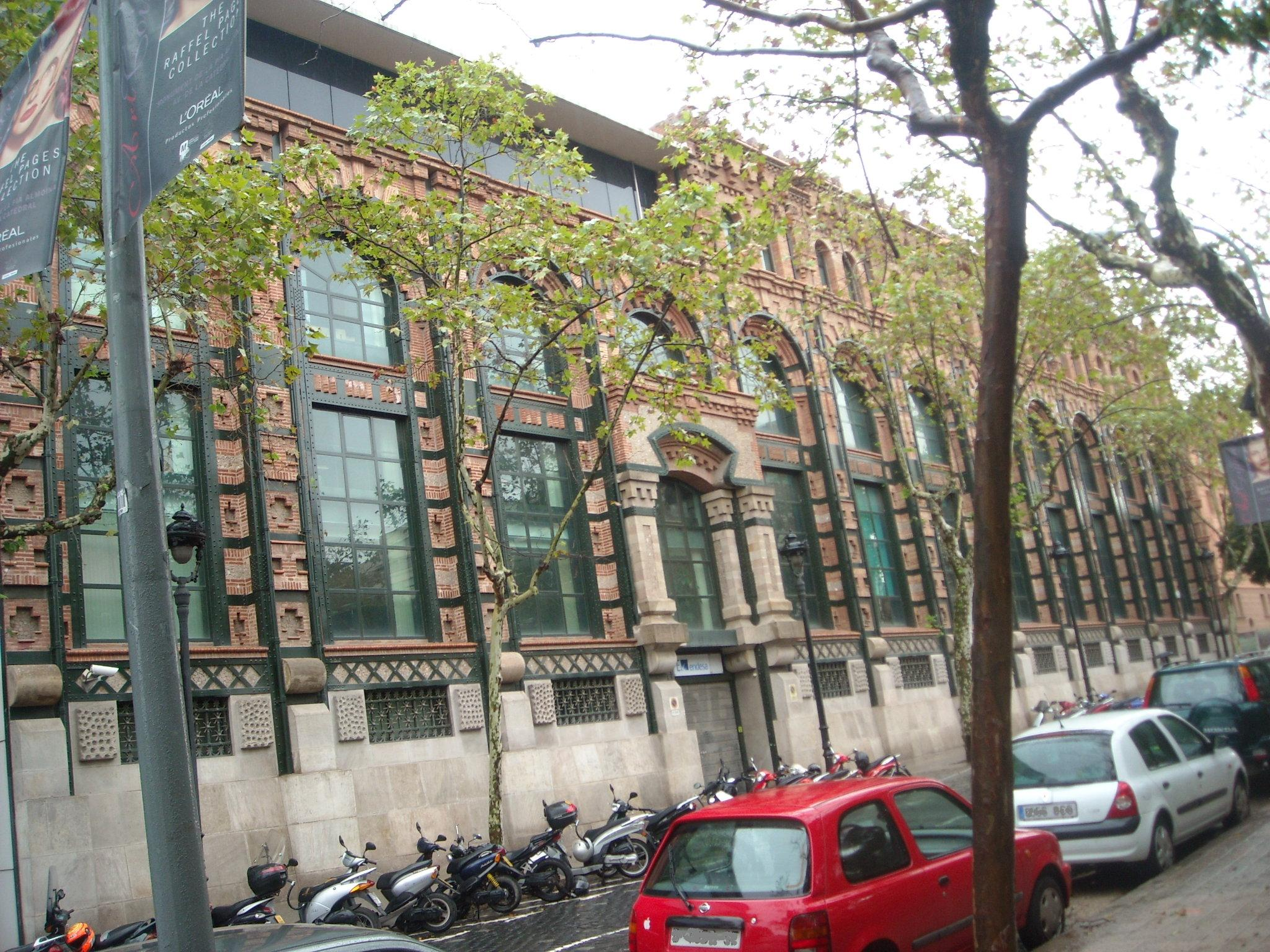 Fecsa building. Fecsa is a catalan power generation firm.